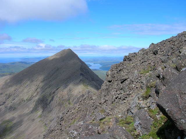 Arete on Cuillin ridge. Taken on the Cuillin ridge looking towards Sgurr Thuilm